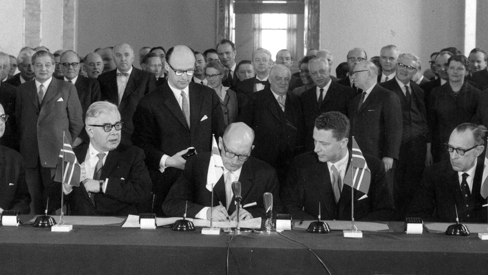 Photograph of the signing of the so-called Nordic Treaty or Helsinki Treaty in Helsinki. Here signing the Prime Minister of Finland, Martti Miettunen. To his left, the minister of justice of Iceland, Bjarni Benediktsson. To the right of Miettunen, the minister of education of Norway, Helge Sivertsen, and the minister of justice of Sweden, Herman Kling.